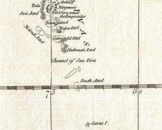 Section of D'Anville's Map centered on the Suvadiva Channel